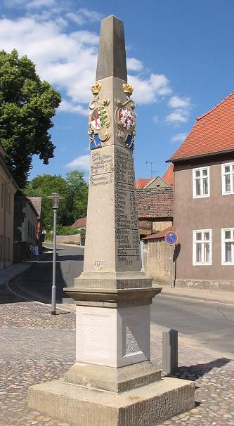 Historic center Belzig, saxony Post-mile-stone. Belzig is the central town of the district Potsdam-Mittelmark in the state Brandenburg of Germany. Belzig appertains to the natural preserve Naturpark Hoher Fläming.